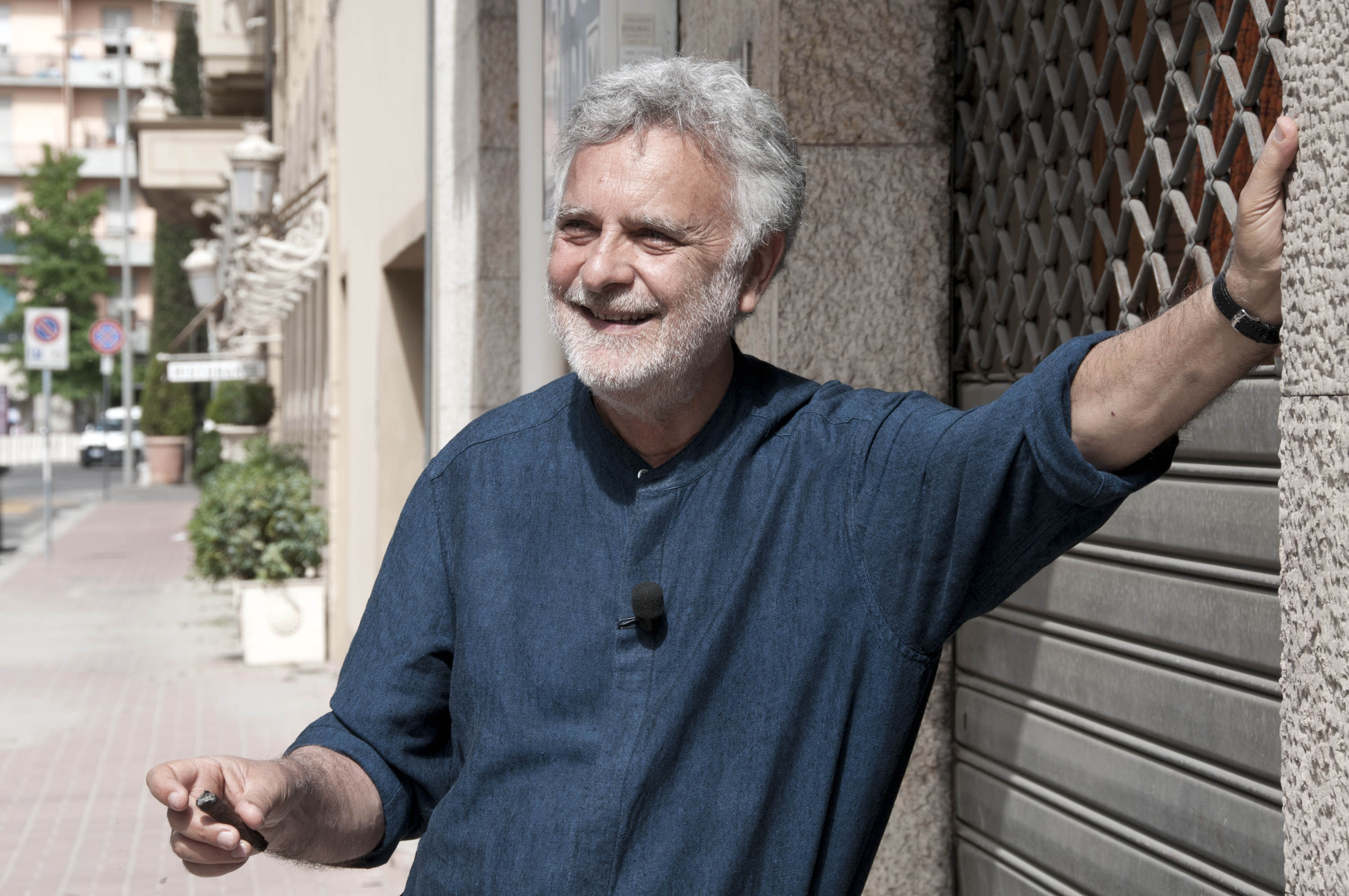 Photography of Simone Rocchi